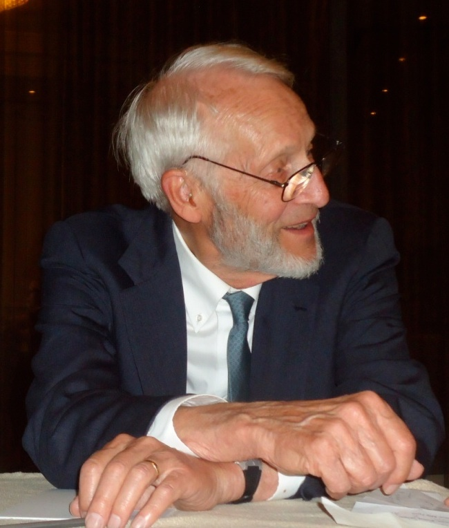 Photo of Dr. John Bascom, surgeon.John U. Bascom